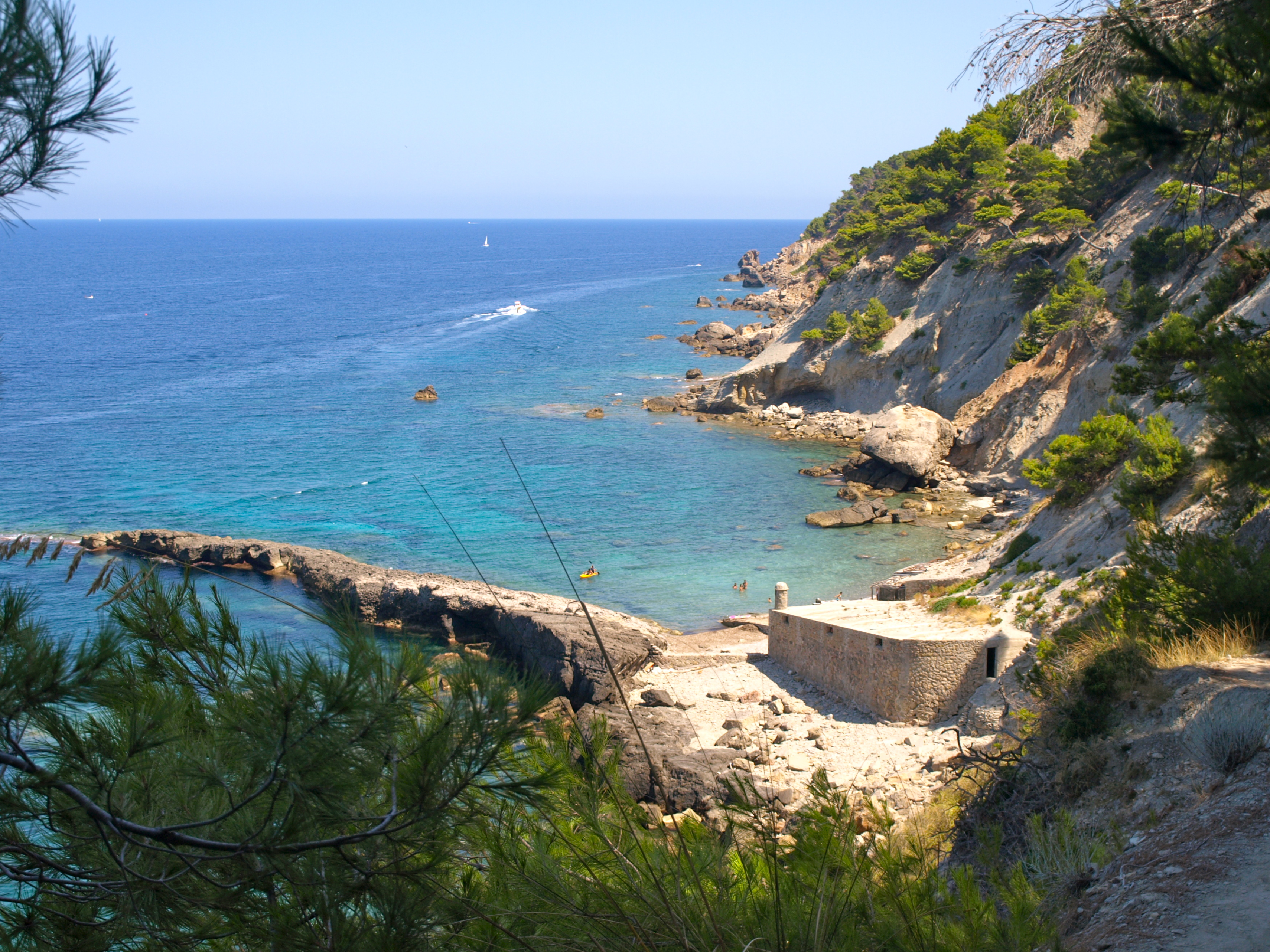 Punta Galera Place Lloc/Place: Camí de Punta Galera, Banyalbufar